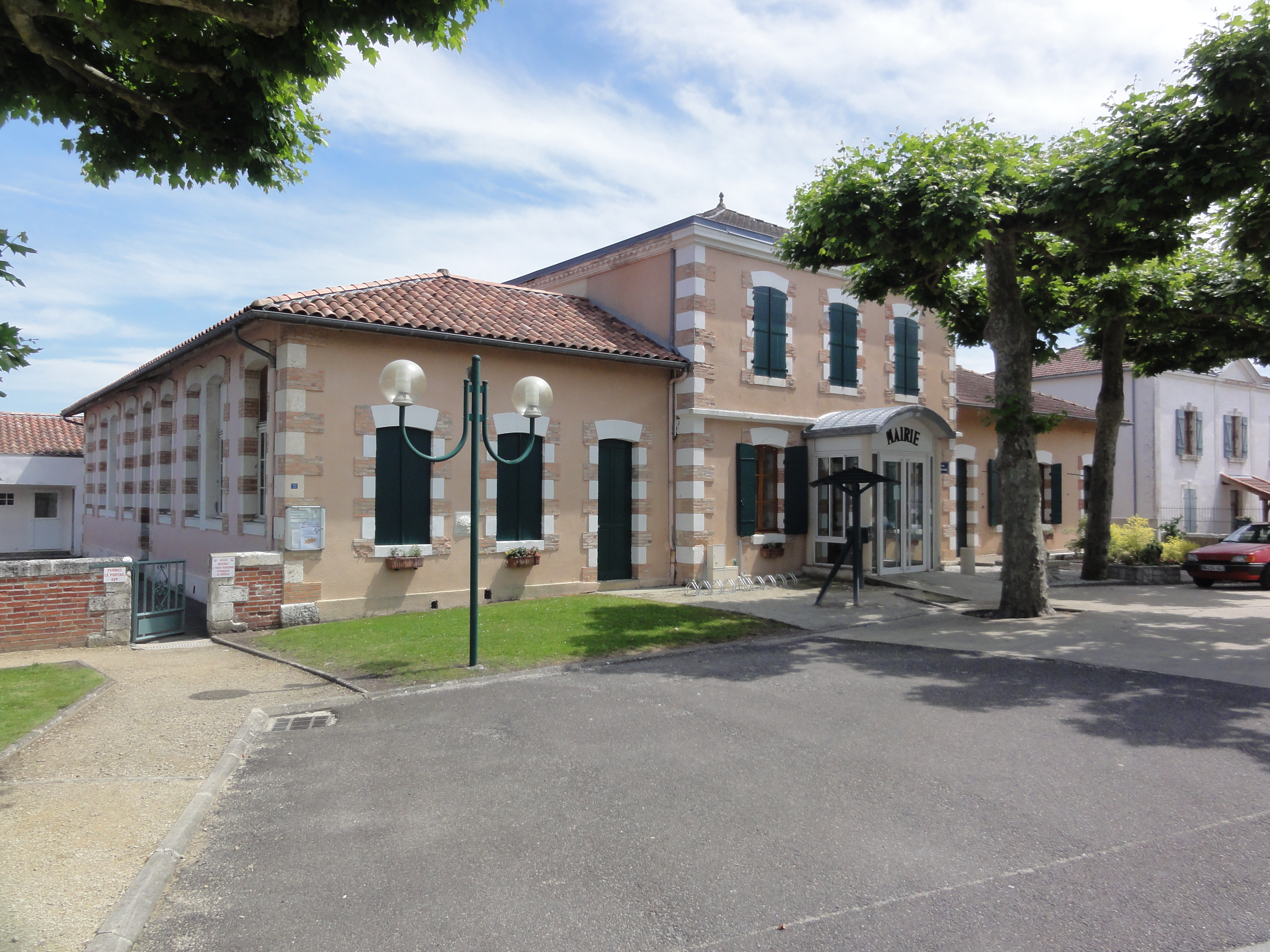 Lesperon (Landes) Mairie